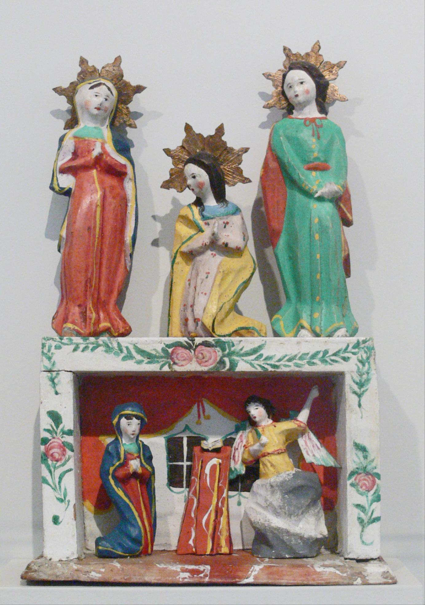 Little altar with an Annunciation scene, painted spruce wood, produced in Oberammergau, 19th century Landesmuseum Württemberg (Außenstelle Museum für Volkskultur in Württemberg, Waldenbuch) 1.1.1, Inv. Nr. LVK 1978/156